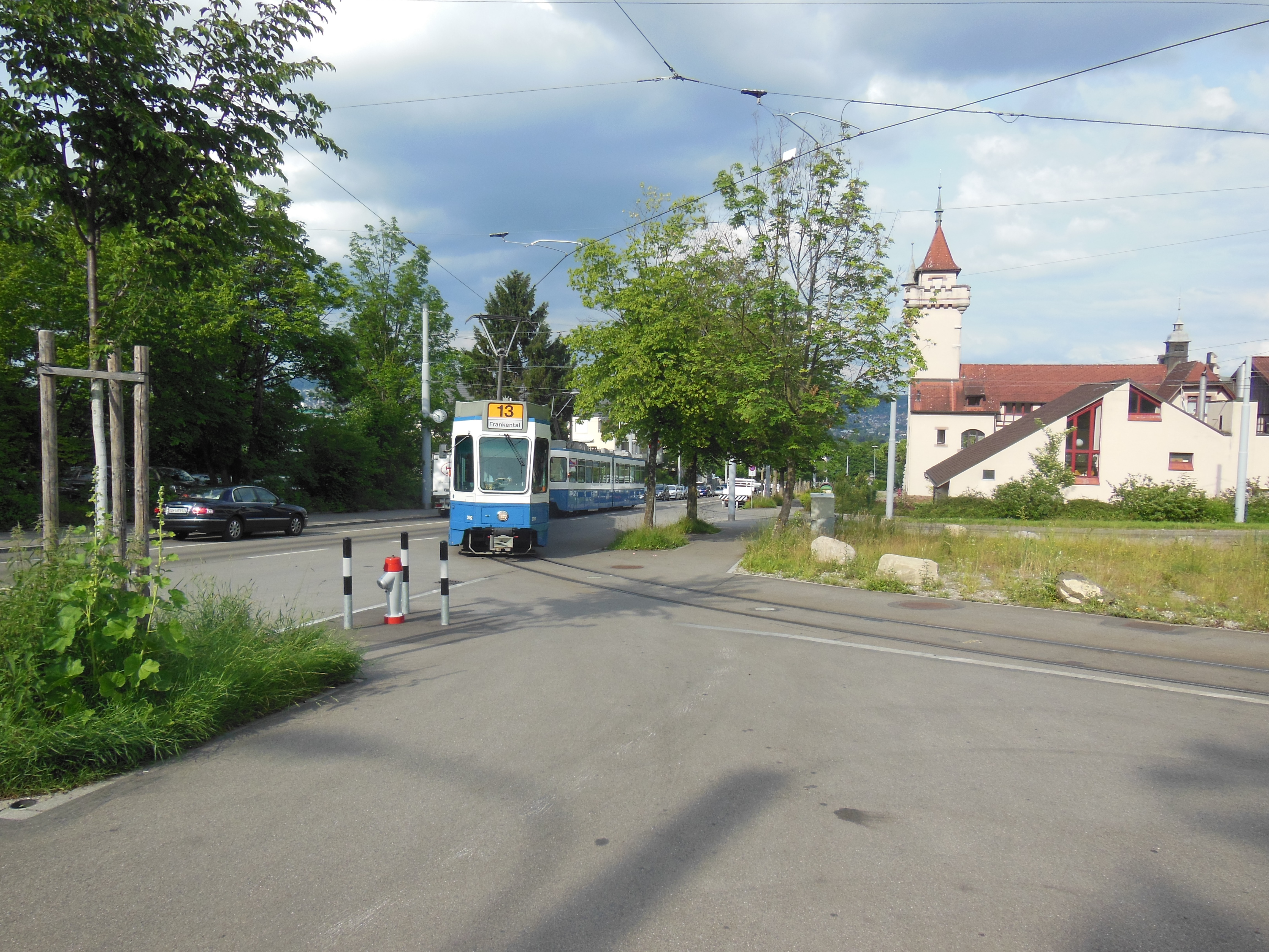 Zürich tram on route 13 enters Albisgütli terminus from Uetlibergstrasse.